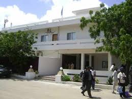 somali presidential palace